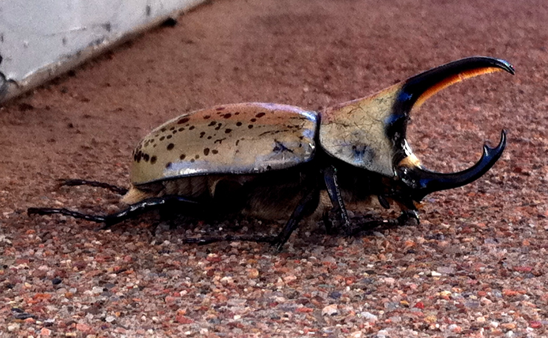 Dynastes granti, Grant's Rhinoceros Beetle, Pine AZ. This is the second time I've seen this same scary beetle on guard at pump number 3 at Uncle Tom's Texaco in Pine AZ.